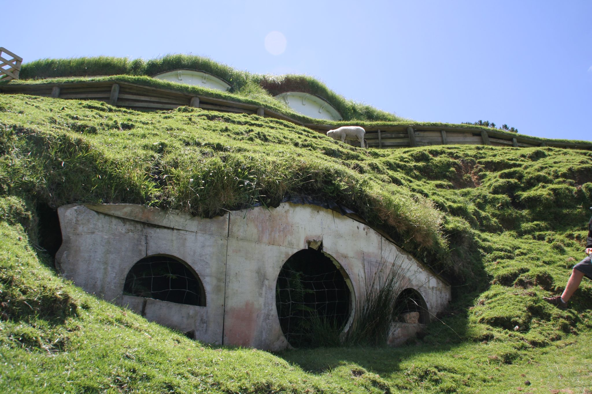 Original Hobbit Hole, Hobbiton location for LOTR trilogy, New Zealand.